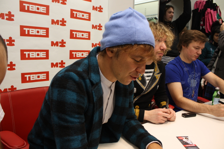 Mumiy Troll in shop